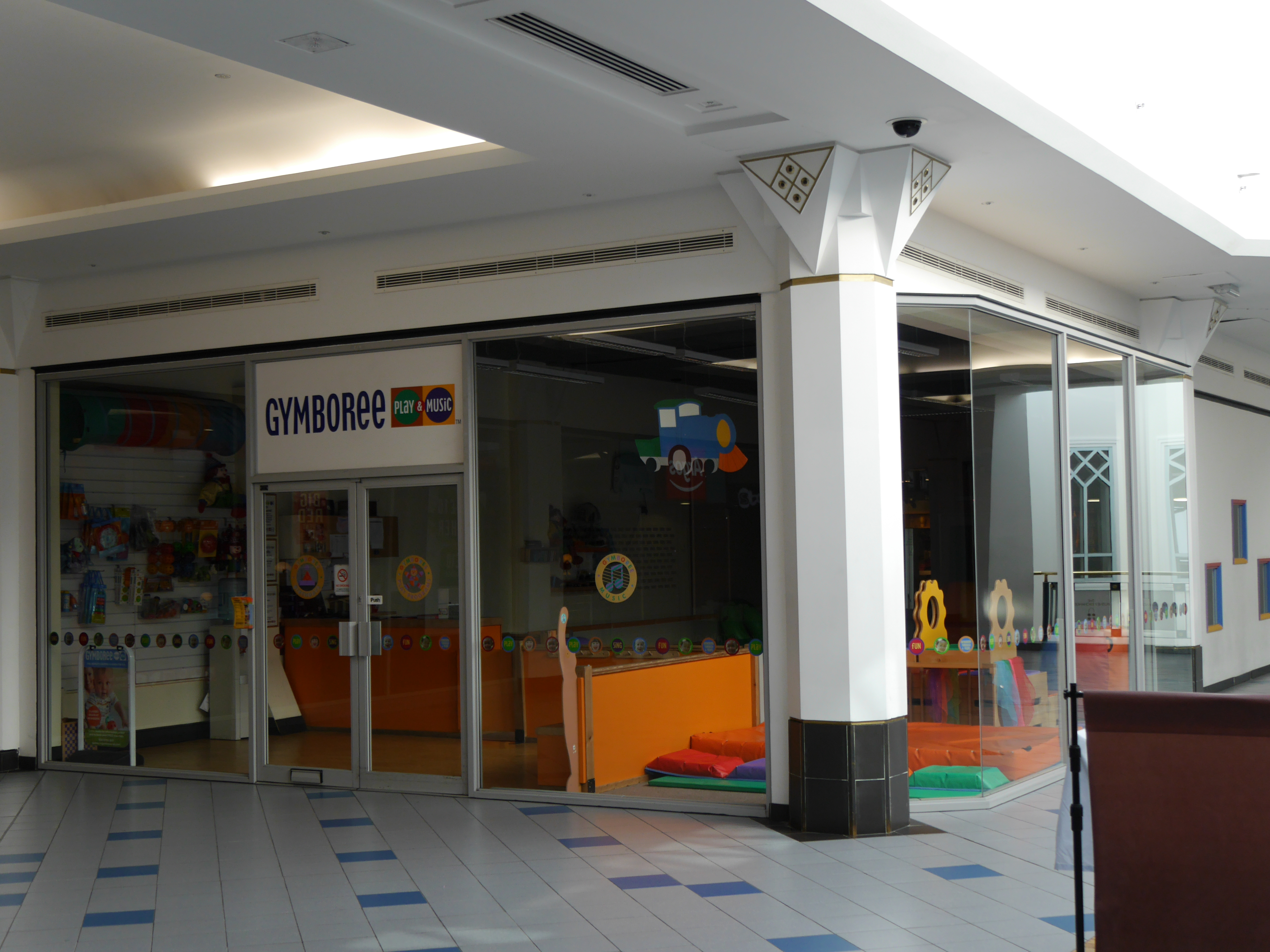 Putney Exchange